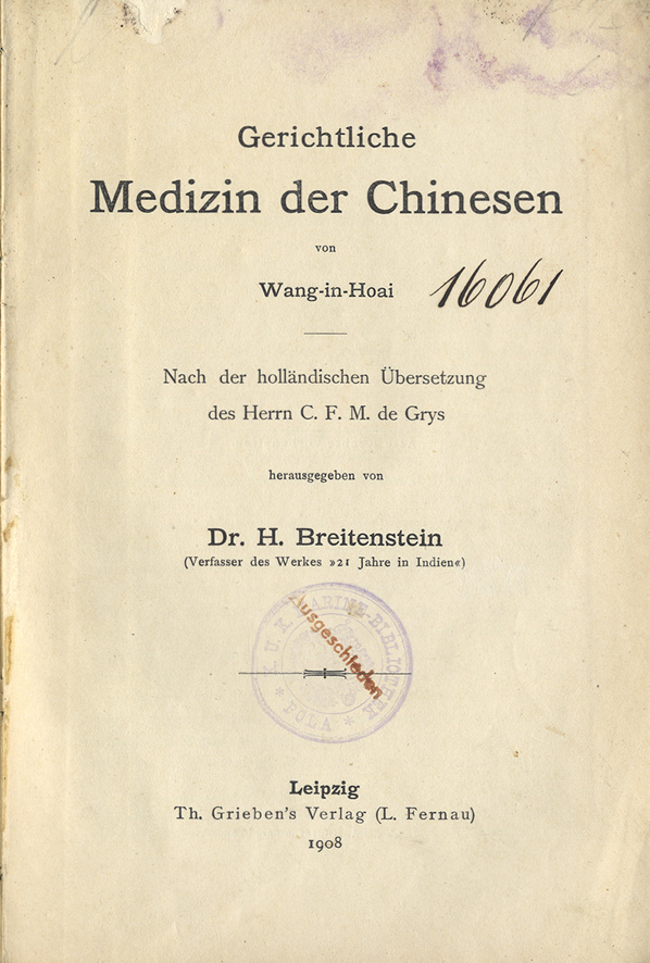 German translation of Song Ci's book on forensic medicine, the Xǐ yuān lù (Washing Away of Wrongs), 1247.